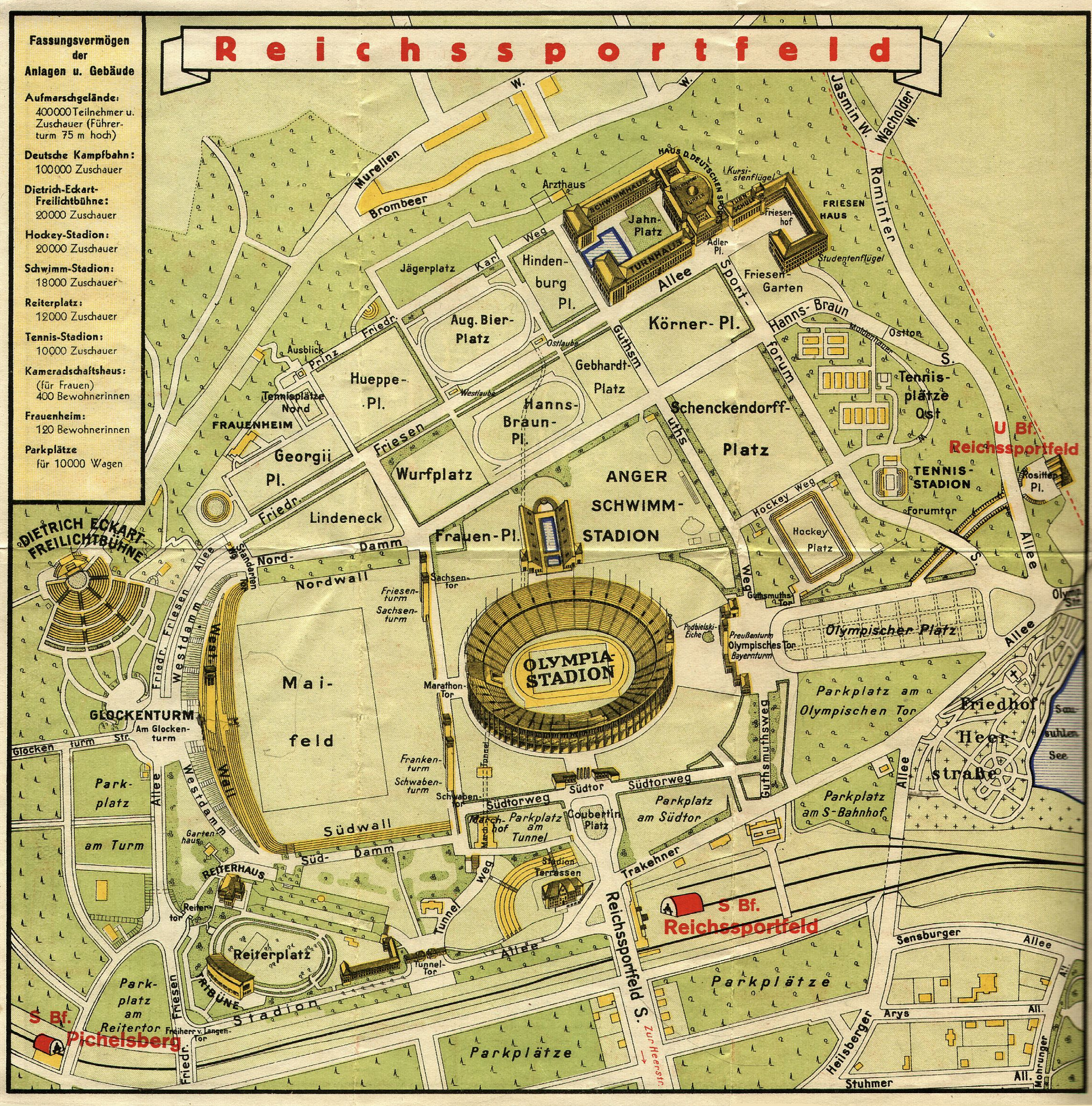 Venues of the 1936 Summer Olympics: Reichssportfeld